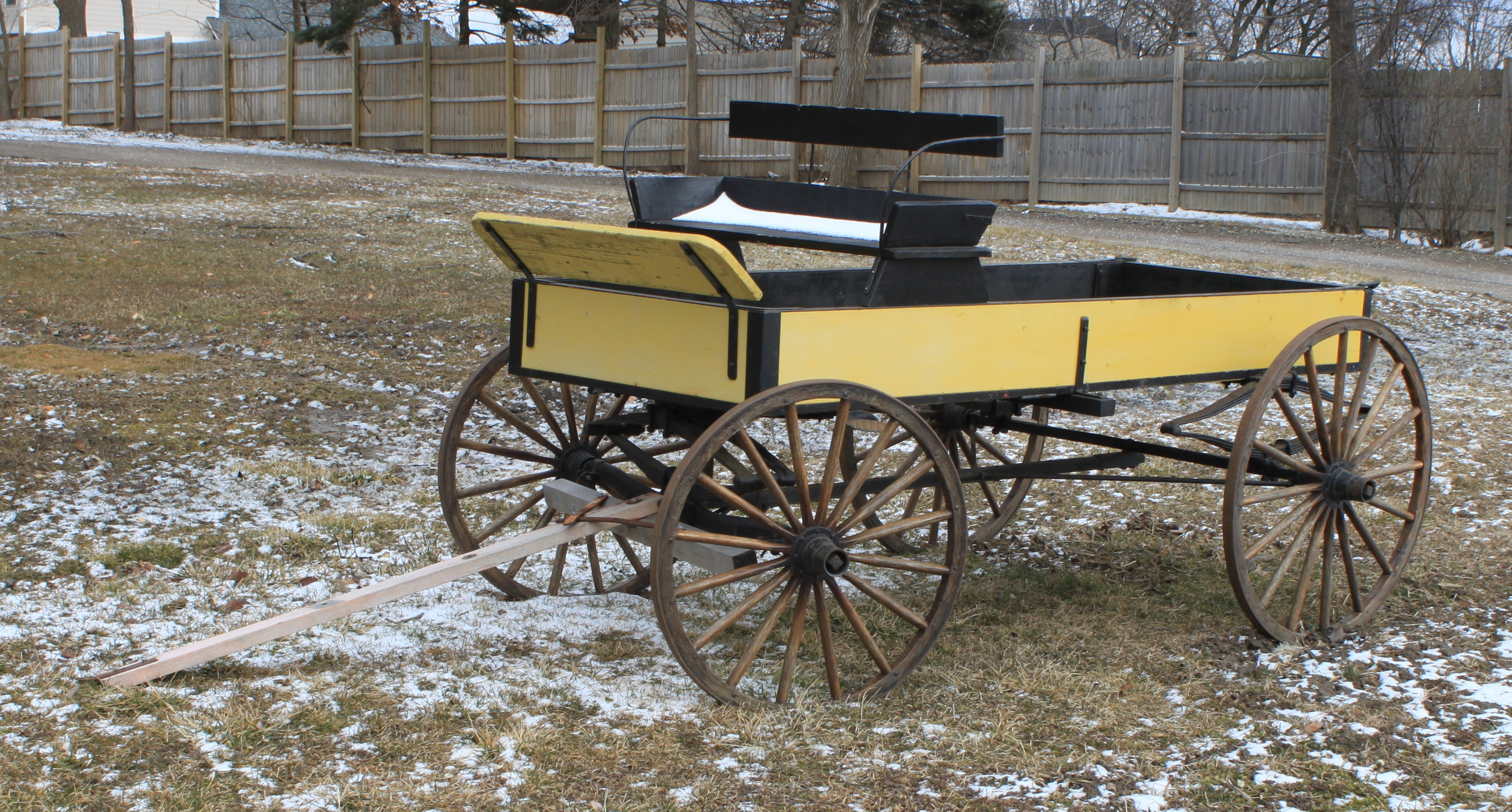 A buckboard in a yard at the on West Eight Mile Road at Halsted Road, Farmington Hills, Michigan.